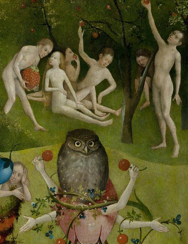 The Garden of Earthly Delights, central panel, detail.